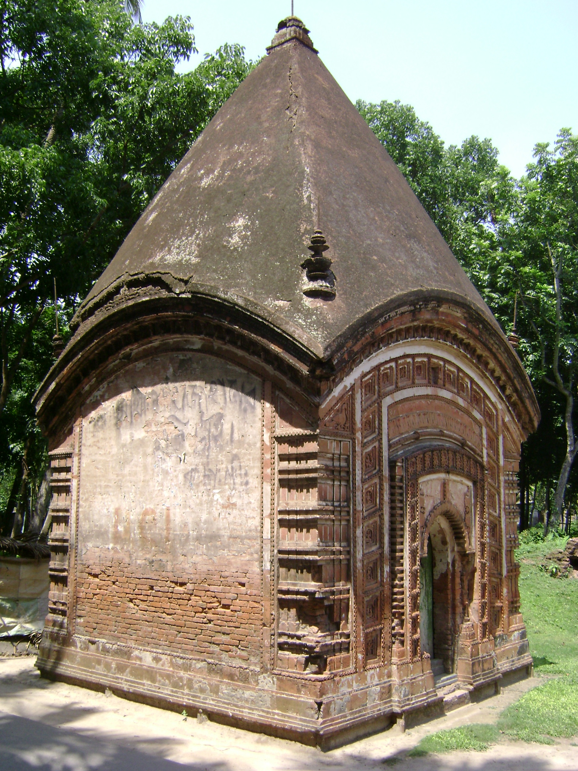 Puthia Mandirs, Chapai Nababgonj, Bangladesh